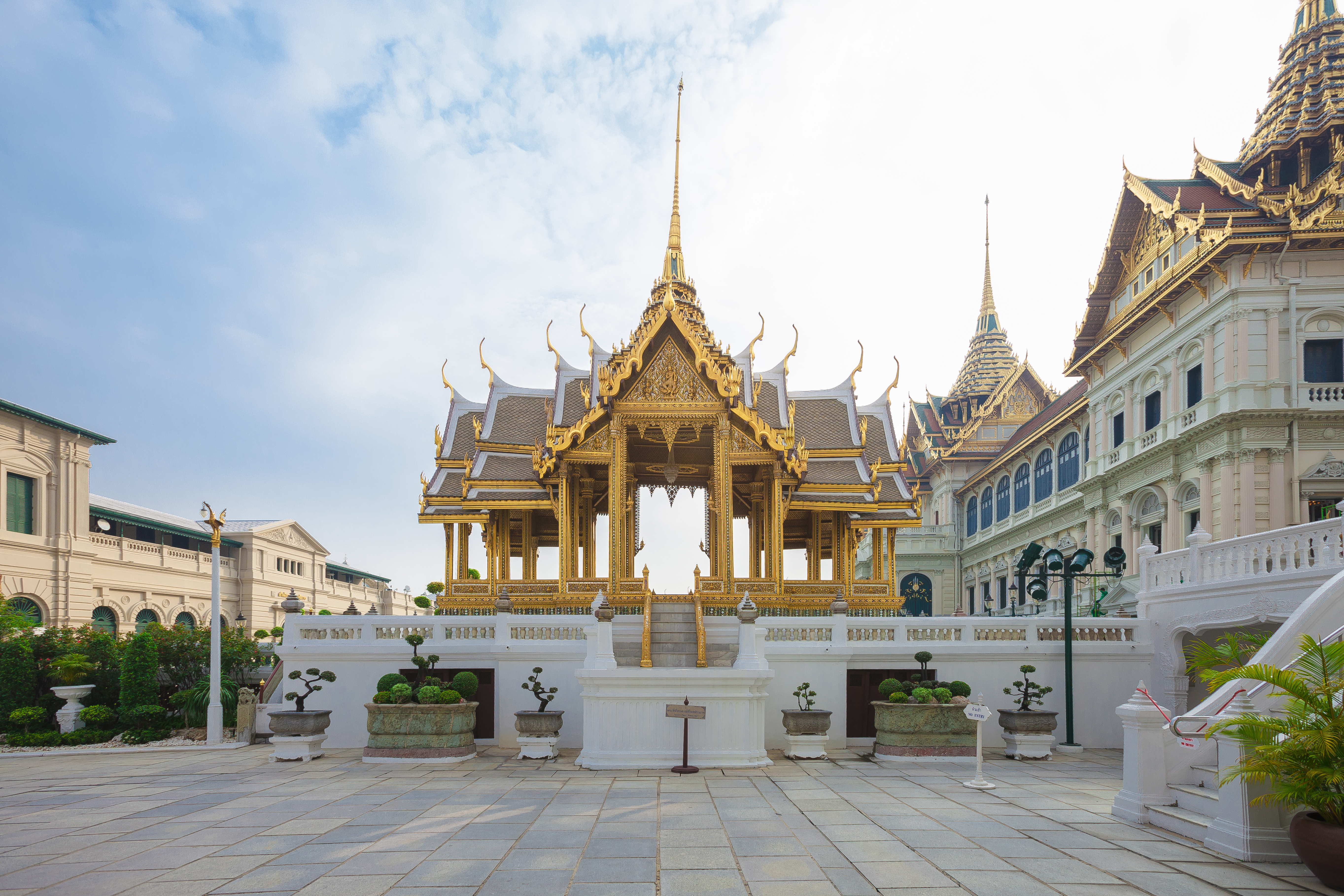 Phra Thinang Aphorn Phimok Prasat at Grand Palace, Bangkok